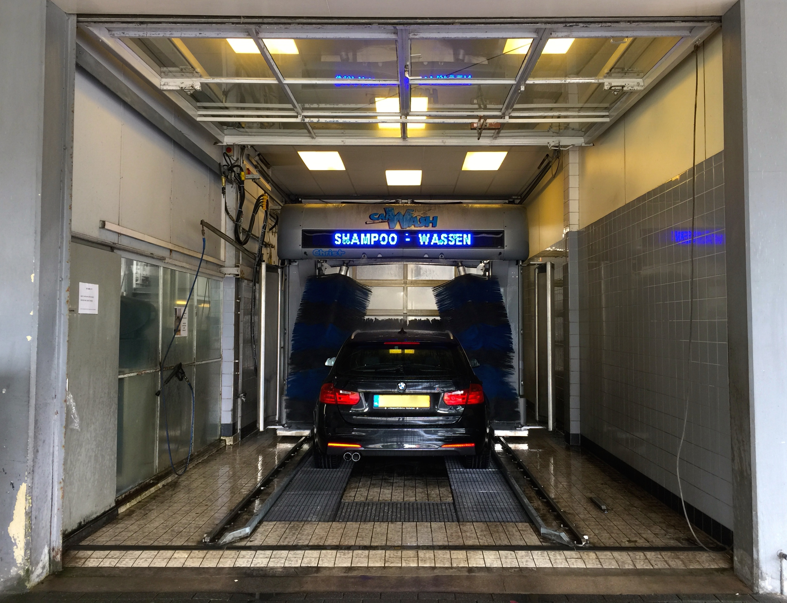 'Car Wash Bergwerff' Gorinchem